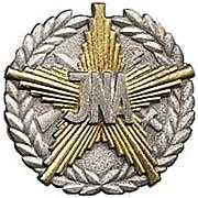 Plaque of the Yugoslav People's Army (JNA)